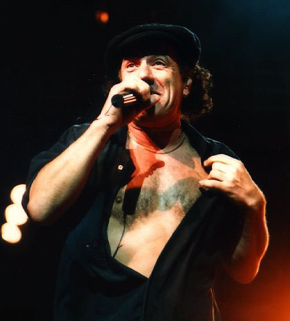 Brian Johnson